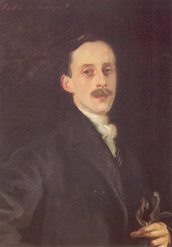 Portrait of Sir Hugh Lane